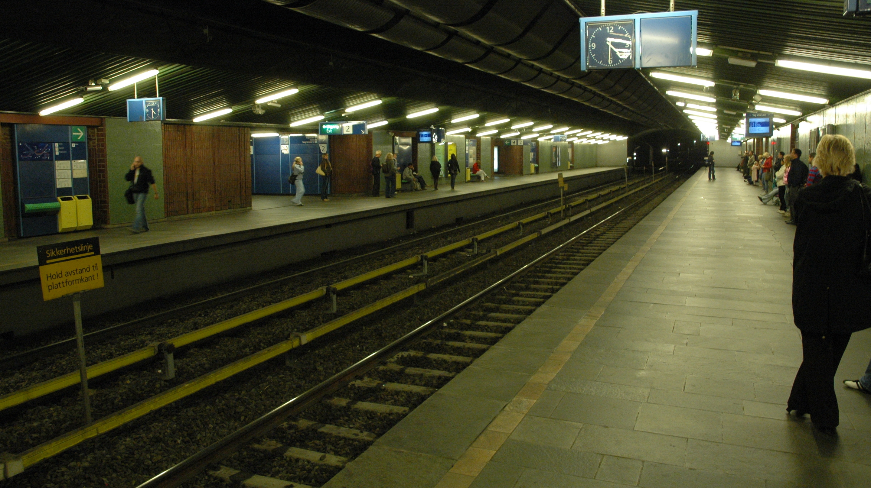 Tøyen subway station, photograph taken from platform for outbound trains